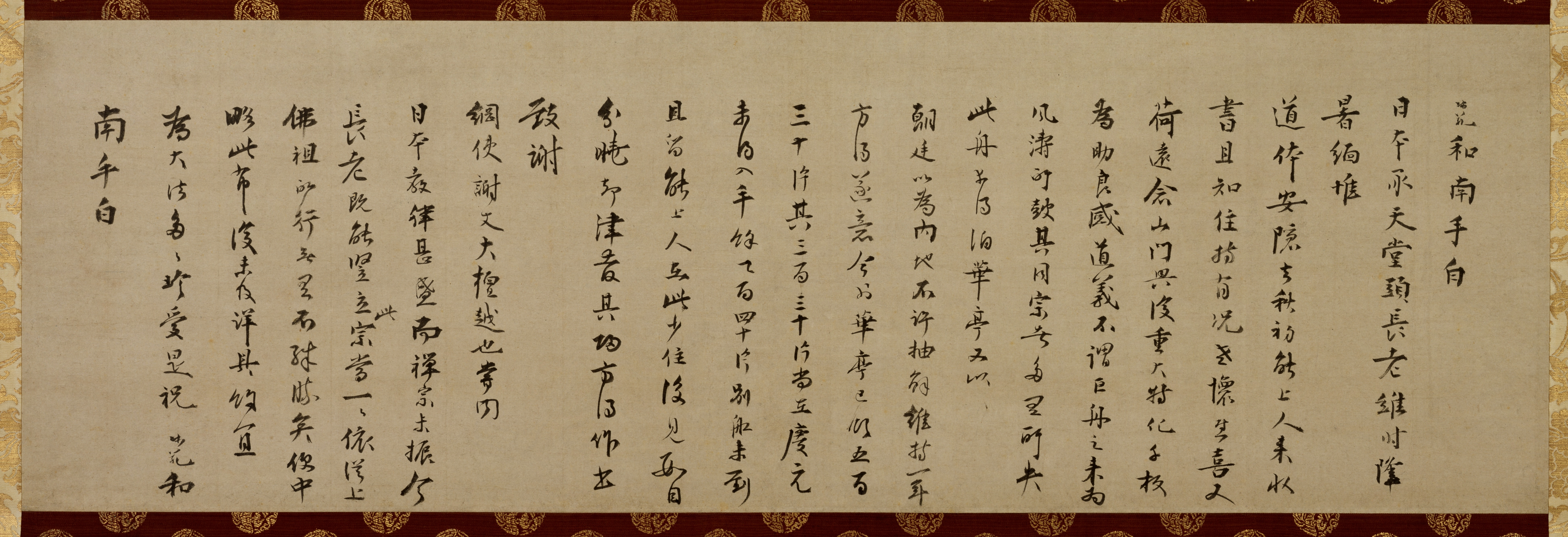 Letter of Wuzhun Shifan (尺牘, sekitoku). Letter of thanks for Enni Ben'en's donation after the destruction of Wanshou Temple by fire. Also known as the "Calligraphy of the Board Gift". One hanging scroll, ink on paper. 32.1 × 100.6 cm (12.6 × 39.6 in). Located at the Tokyo National Museum, Tokyo. The letter has been designated as National Treasure in the category "writings".